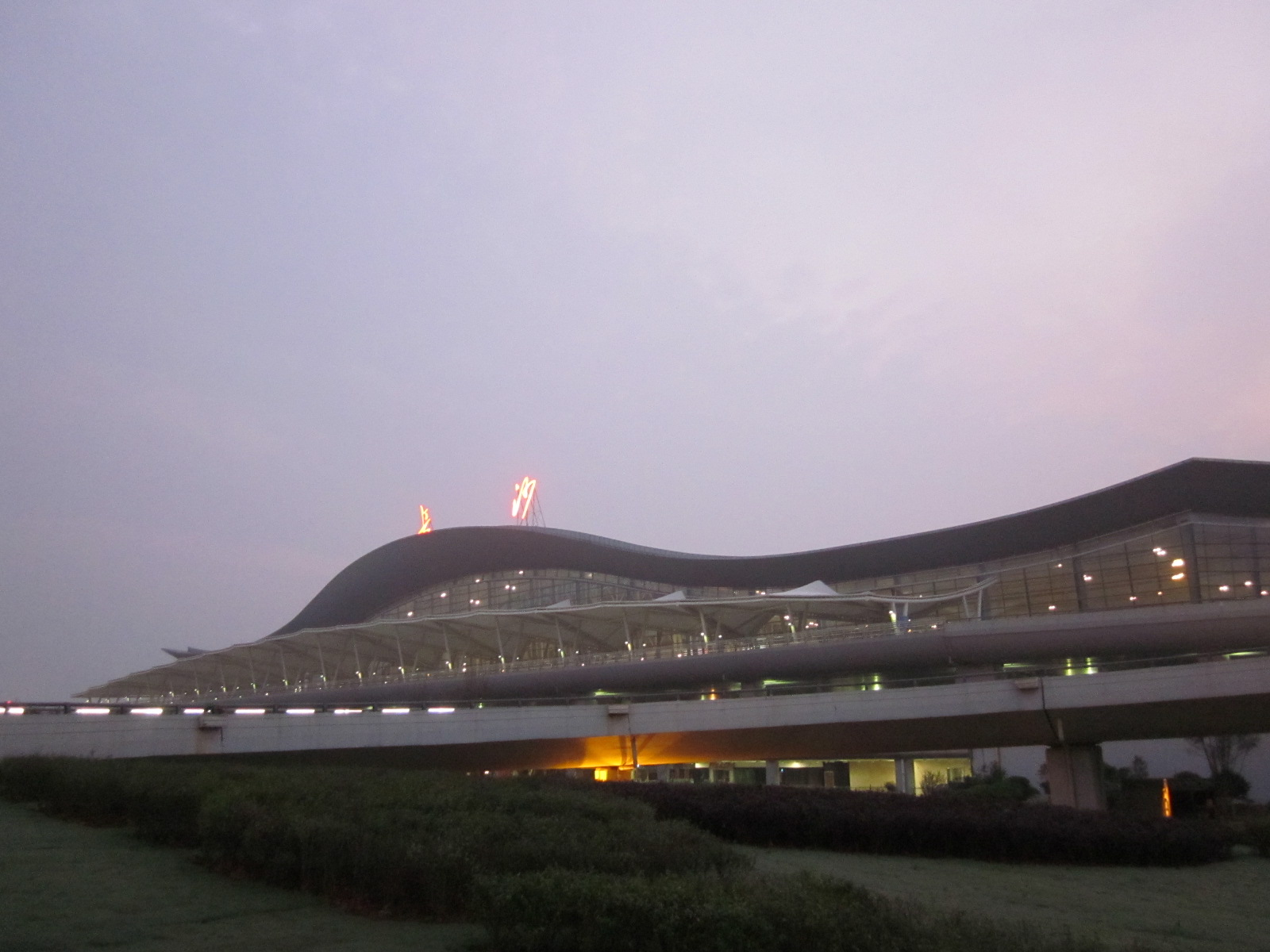 Changsha Huanghua International Airport